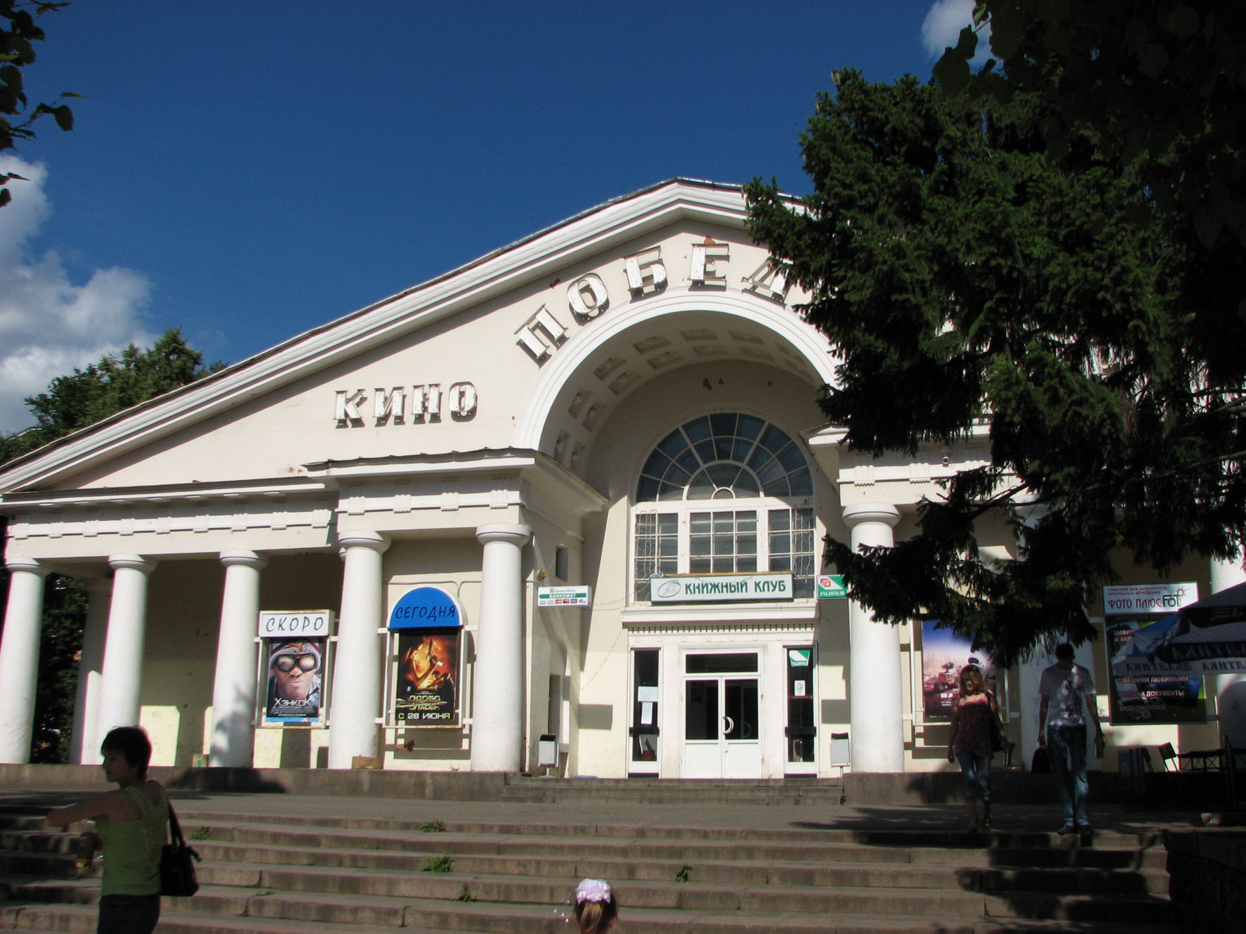 Oryol, building of the cinema "Victory" ("Pobeda"). Lenin street, 22.